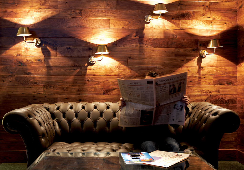 No.1 Traveller Stansted Lounge at Gate 49